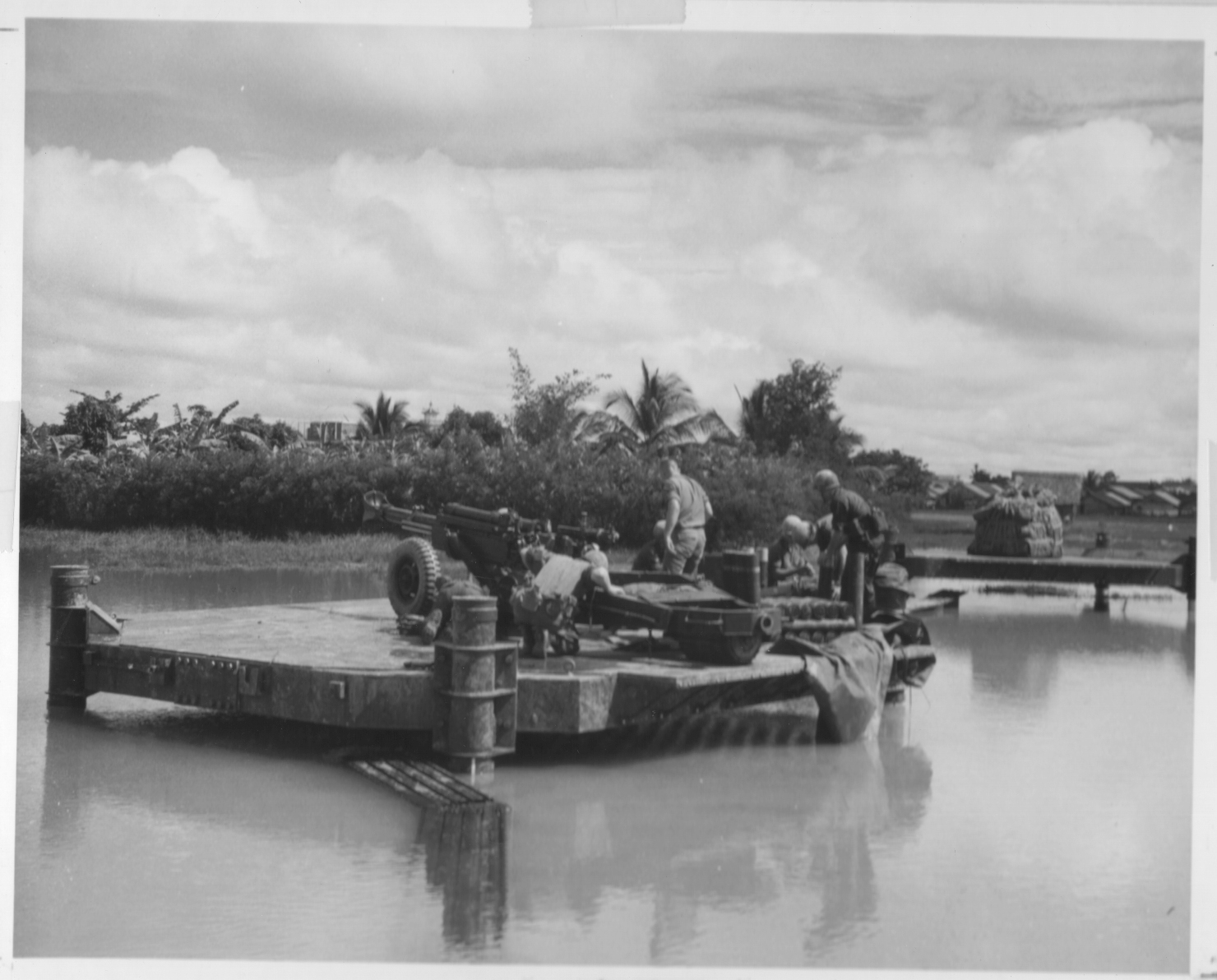 Firing platforms for 105mm howitzers, riverine artillery, on a body of water during the Vietnam War